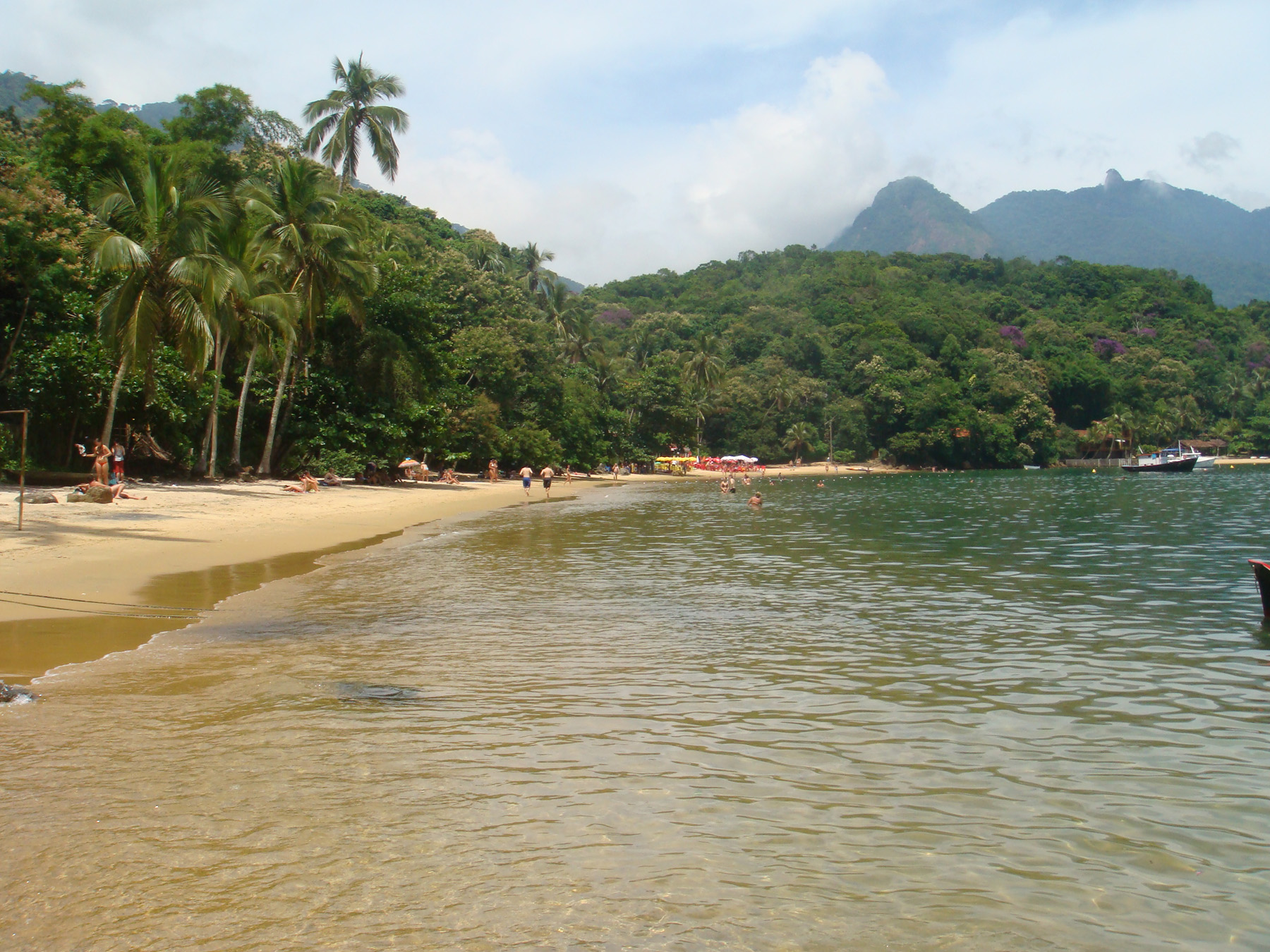 Abraãozinho beach (Praia do Abraãozinho), Ilha Grande, Brazil